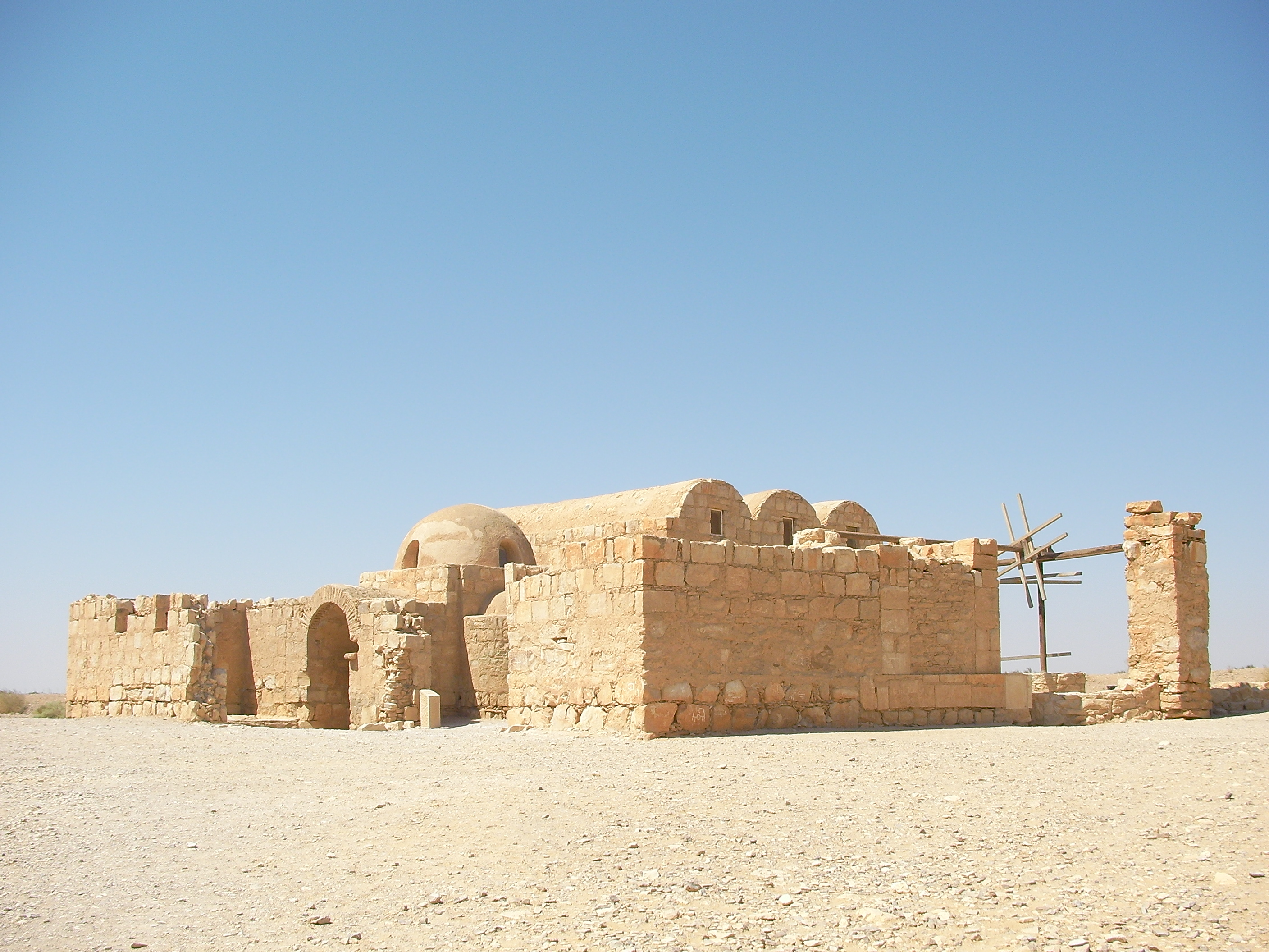 Qasr Amra (Arabic: قصر عمرة / ALA-LC: Qaṣr ‘Amrah), often Quseir Amra or Qusayr Amra, is the best-known of the desert castles located in present-day eastern Jordan. It was built early in the 8th century, sometime between 723 and 743, by Walid Ibn Yazid, the future Umayyad caliph Walid II, whose dominance of the region was rising at the time. It is considered one of the most important examples of early Islamic art and architecture. The discovery of an inscription during work in 2012 has allowed for more accurate dating of the structure.